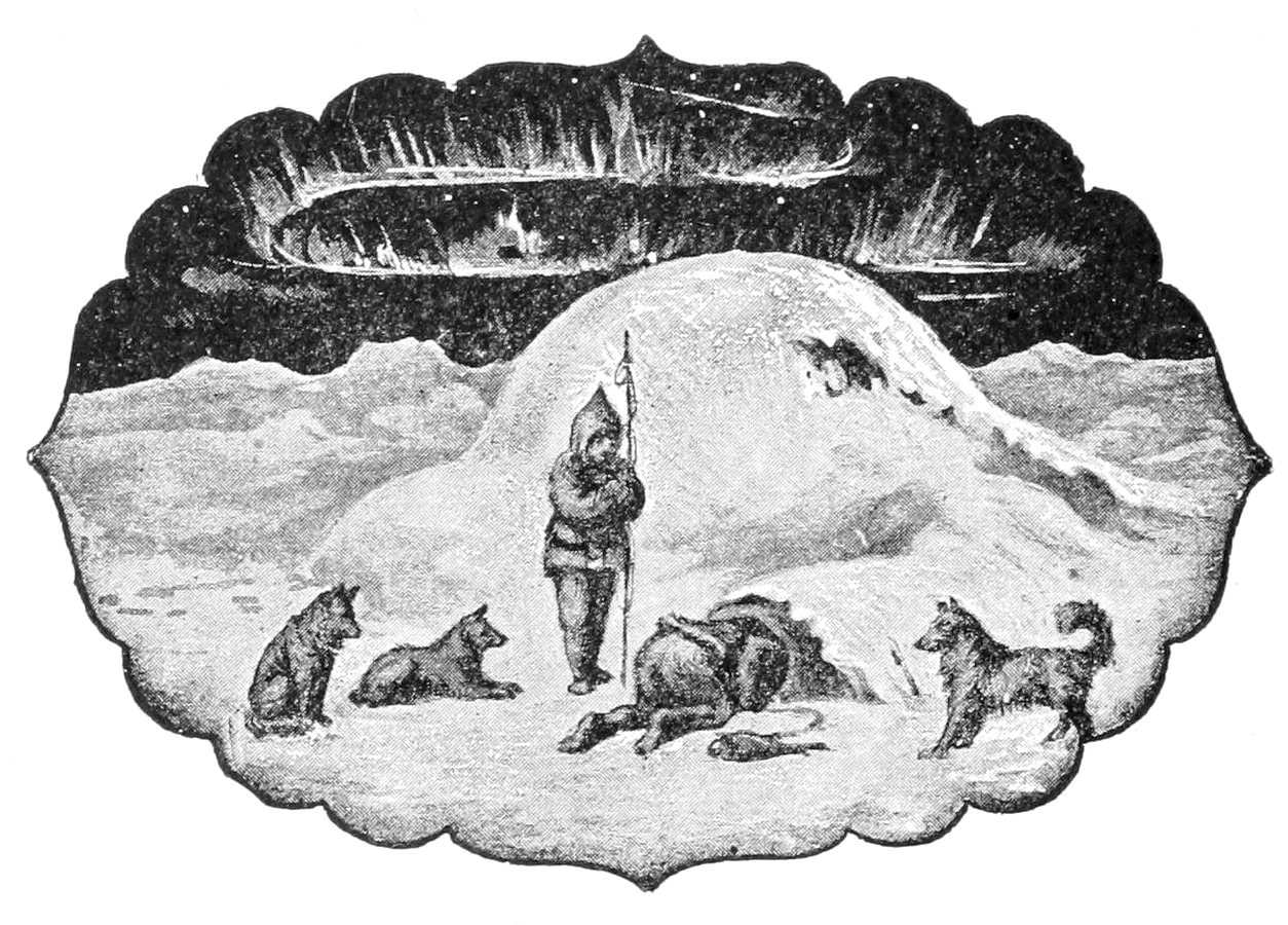 Stylized illustration